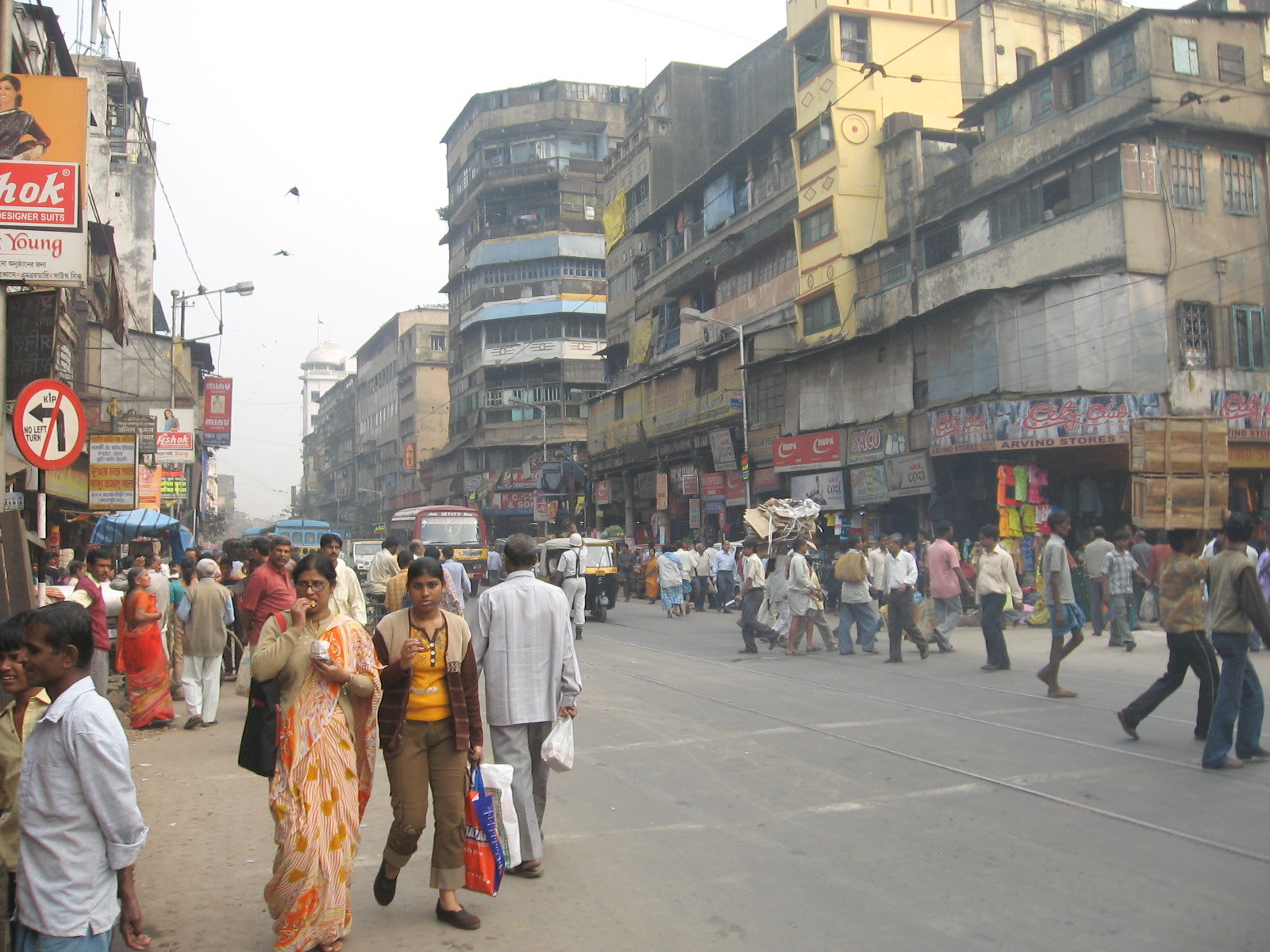 Mahatma Gandhi Road, Kolkata